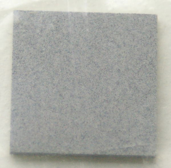 Si3N4 ceramics